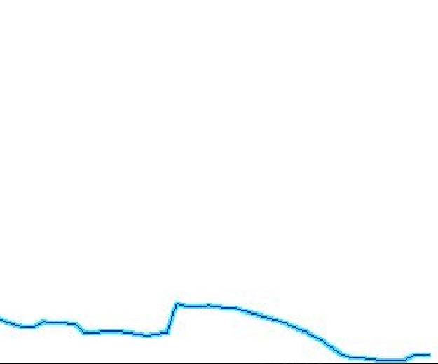 Chart of tone contour in push tone for Roermond Limburgish.